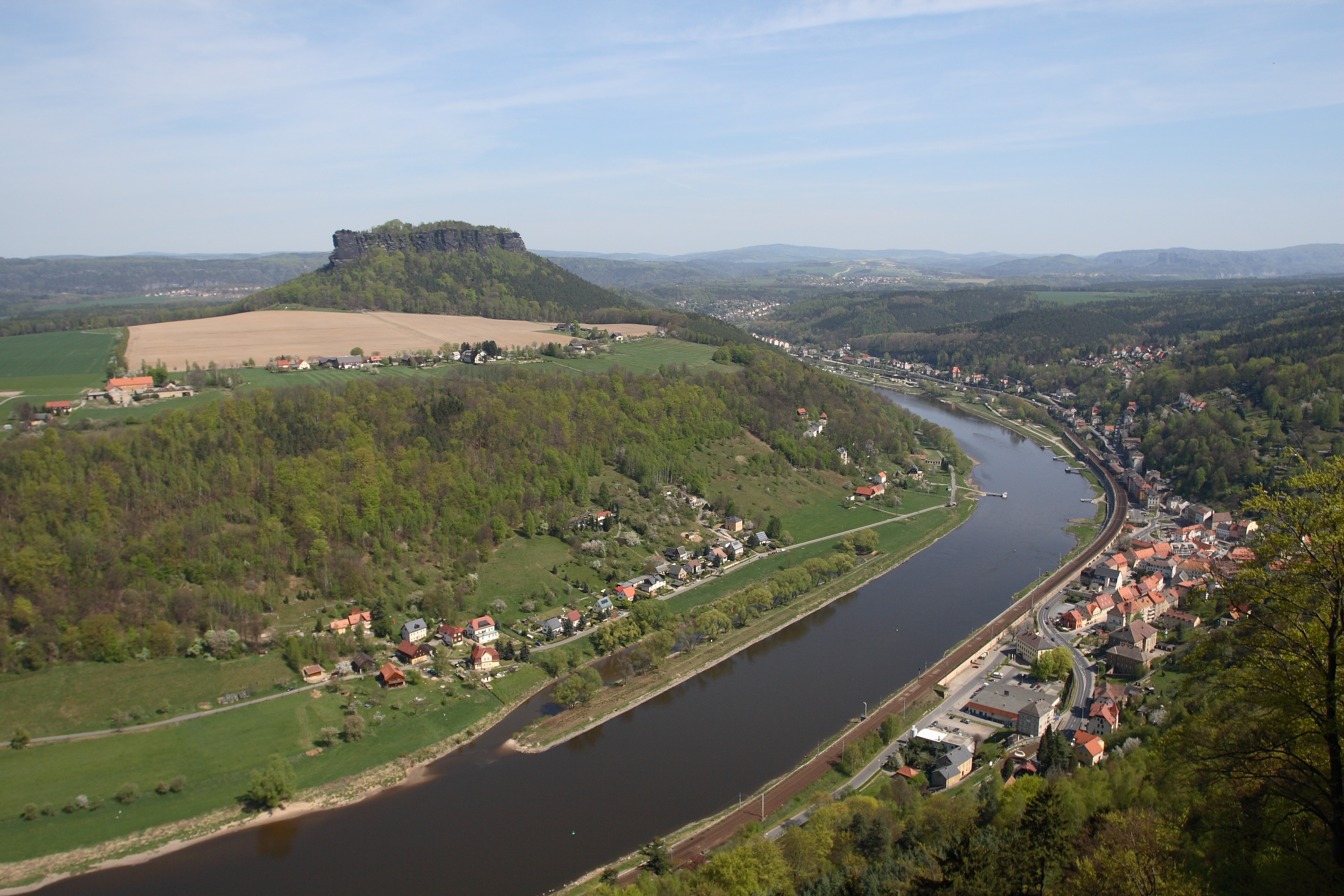 The photography shows an areal view of the German river Elbe between the mountain Lilienstein and the city Königstein (Saxony) in the Saxon Switzerland. The villages Ebenheit and Halbestadt are also visible.